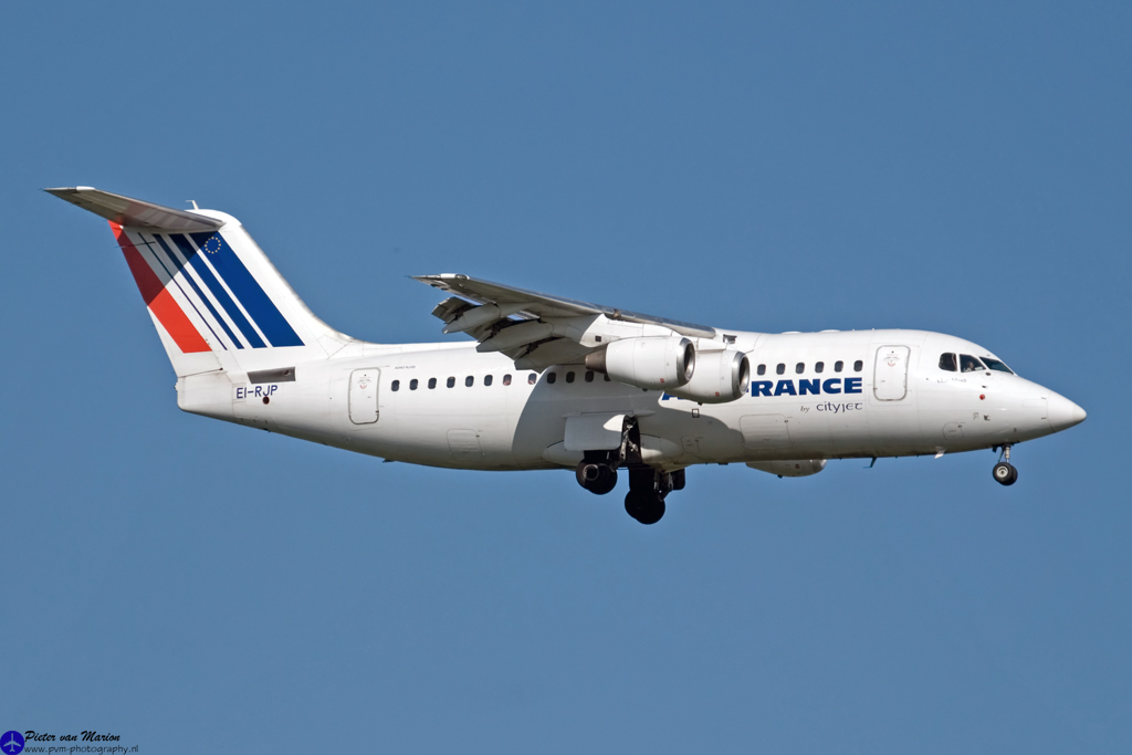 British Aerospace Avro 146-RJ85A Amsterdam schiphol [AMS / EHAM] 21-05-2009